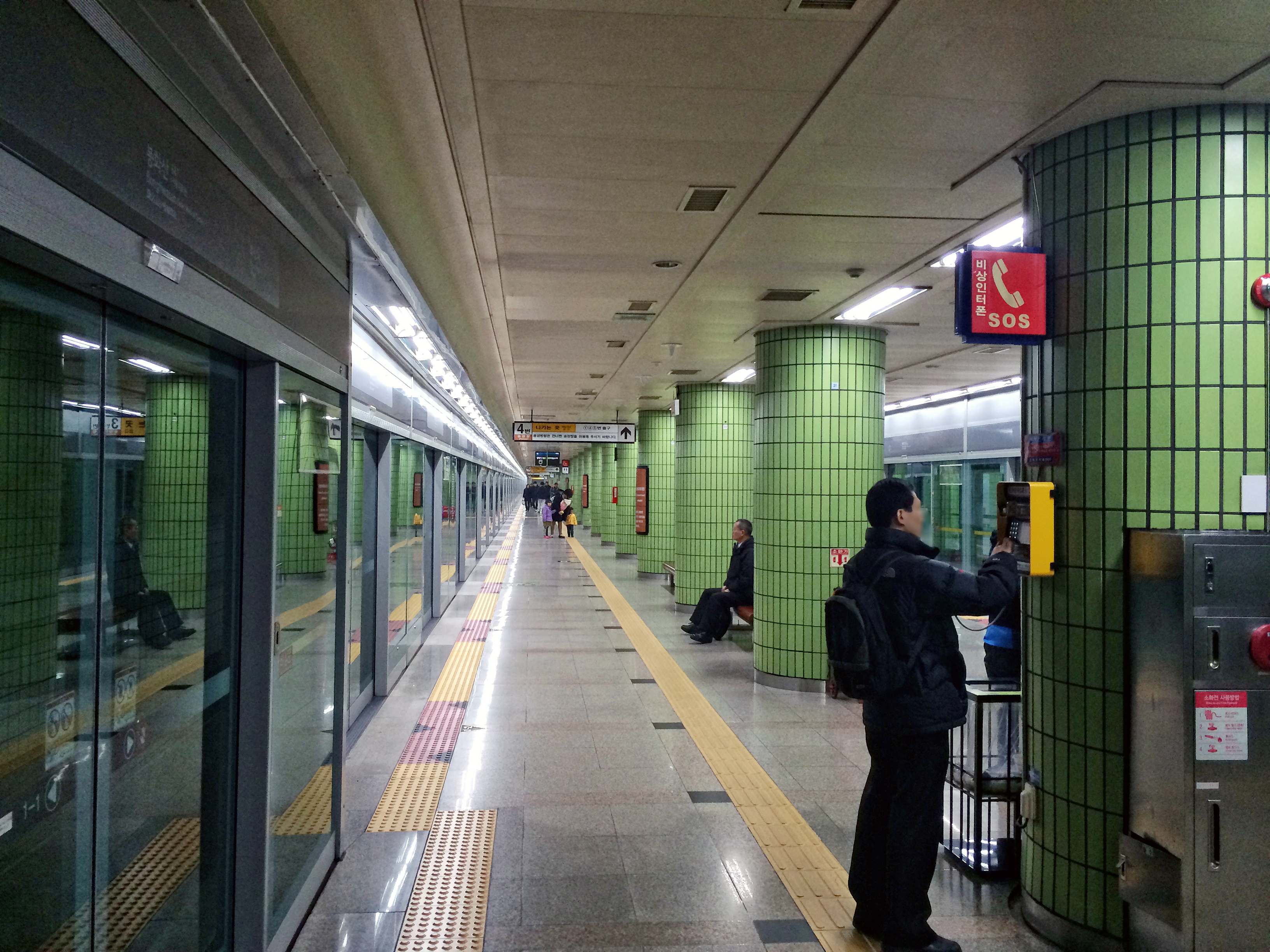 Platform of Bonghwasan (Seoul Medical Center) Station